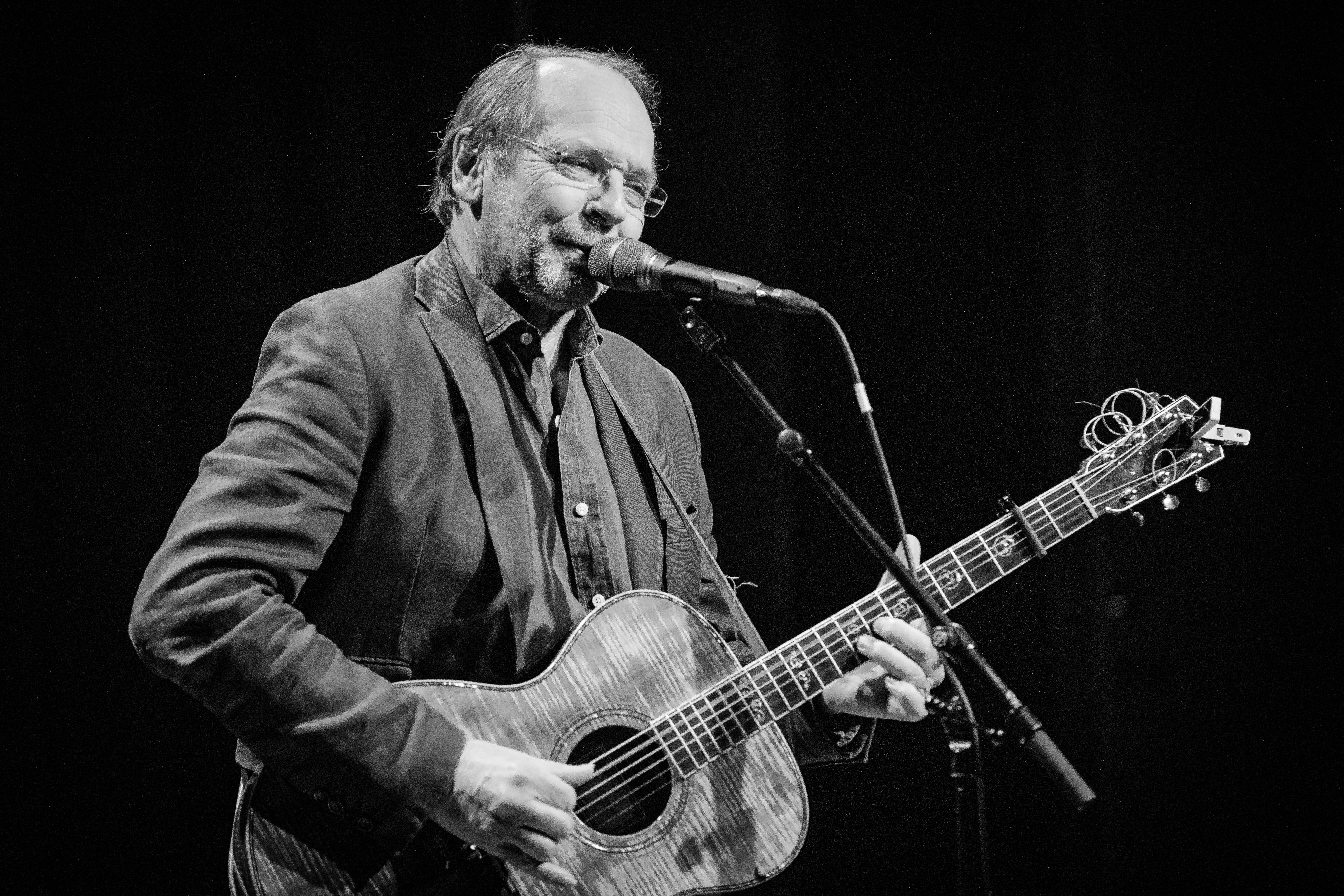 Ole Paus at Belleville at Cosmopolite. The concert was part of Kongshaugfestivalen and took place on 15. March 2019 in Oslo. Lineup:Ole Paus (guitar / vocal)